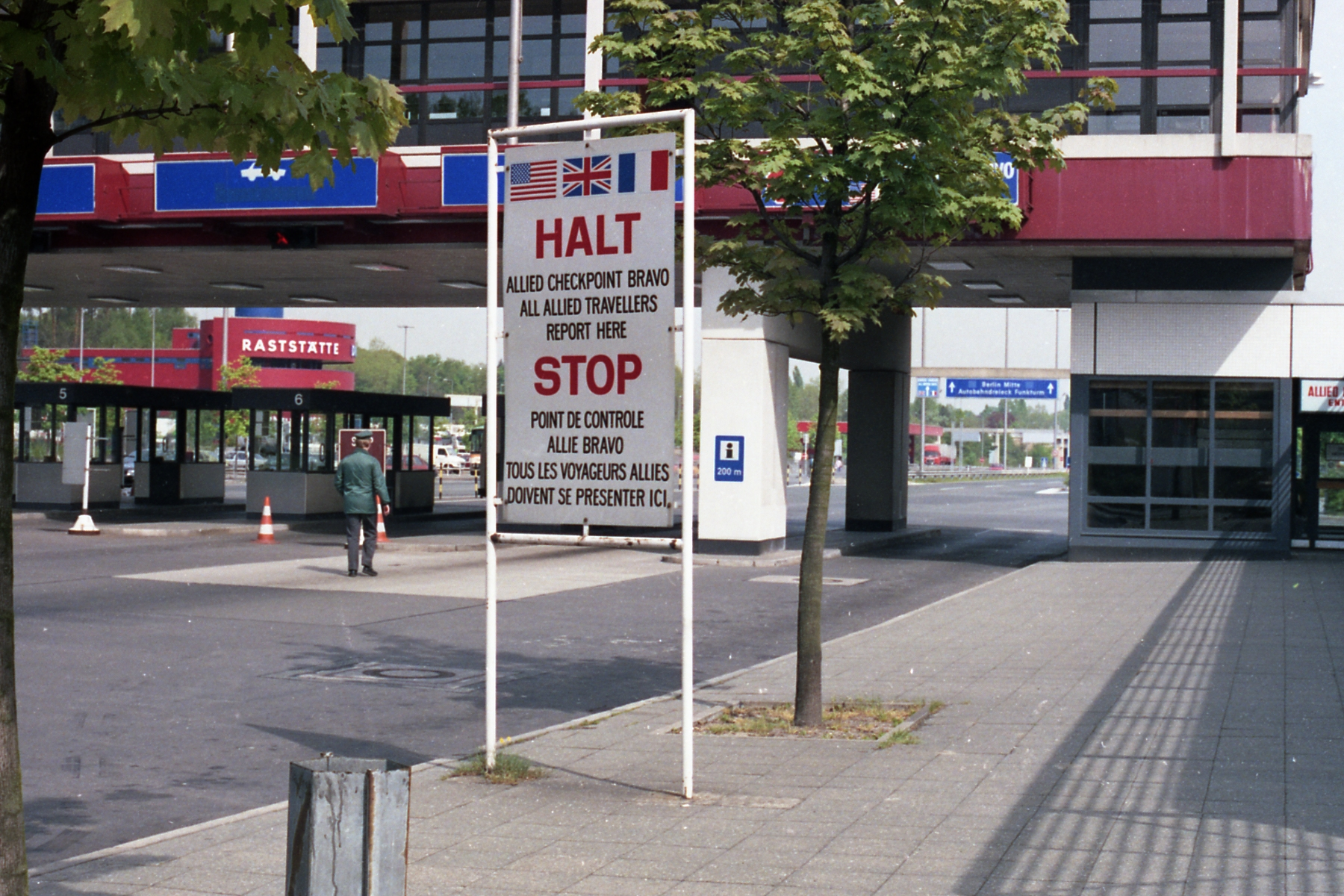 Checkpoint Berlin Dreilinden